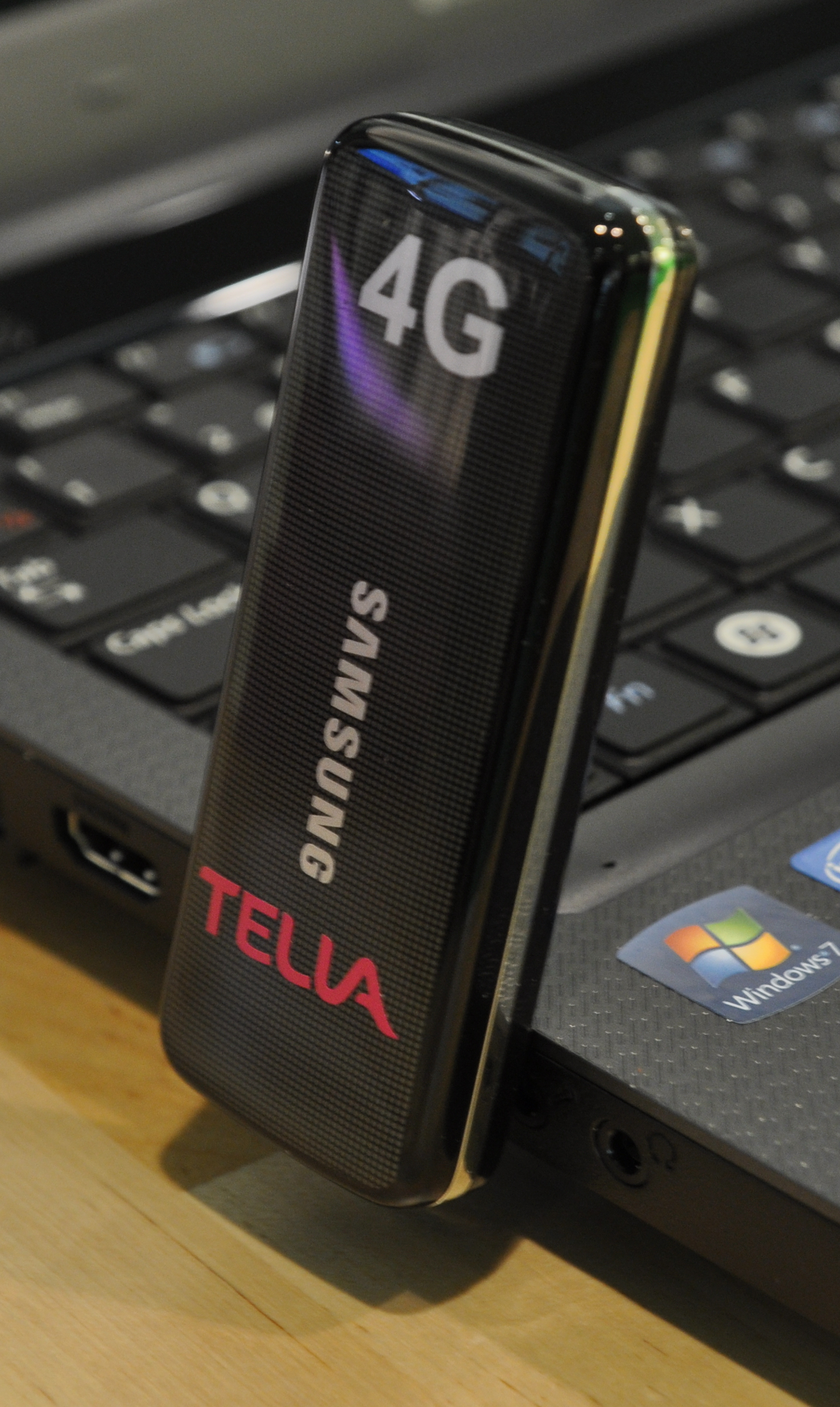 4G LTE single mode modem by Samsung, operating in the first commercial 4G network by Telia